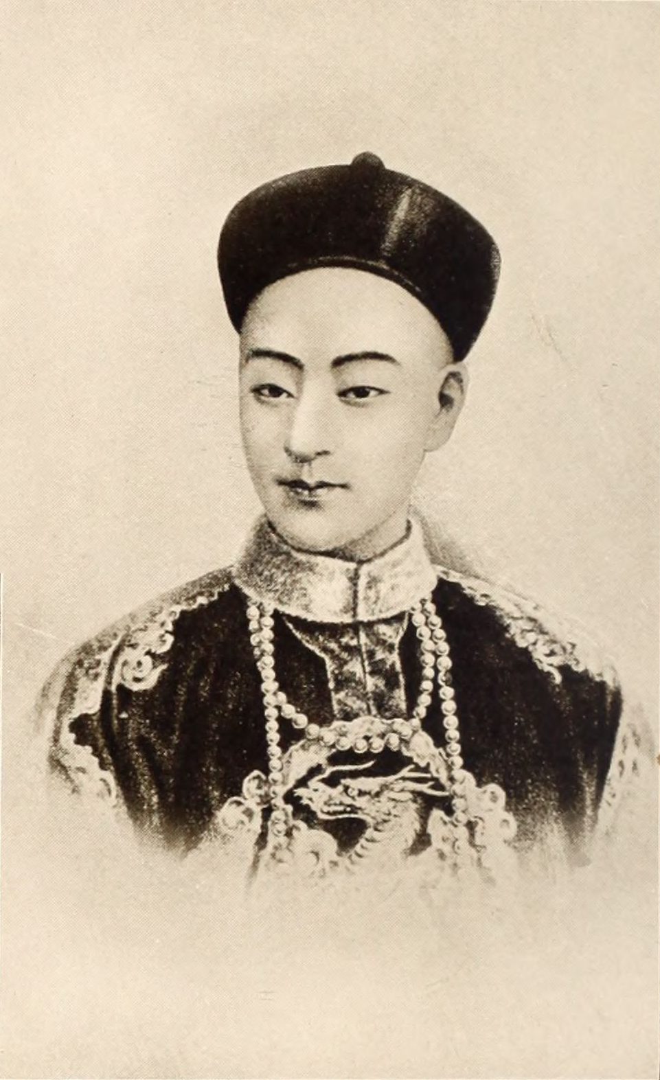 Emperor Guangxu Bân-lâm-gú: Tshing-tiâu Kong-sū hông-tè. 清朝光緒皇帝。